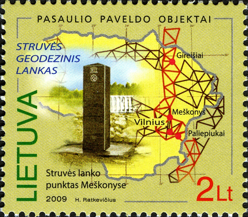 Unesco Site in Lithuania: Struve Arc Point in Meškonys